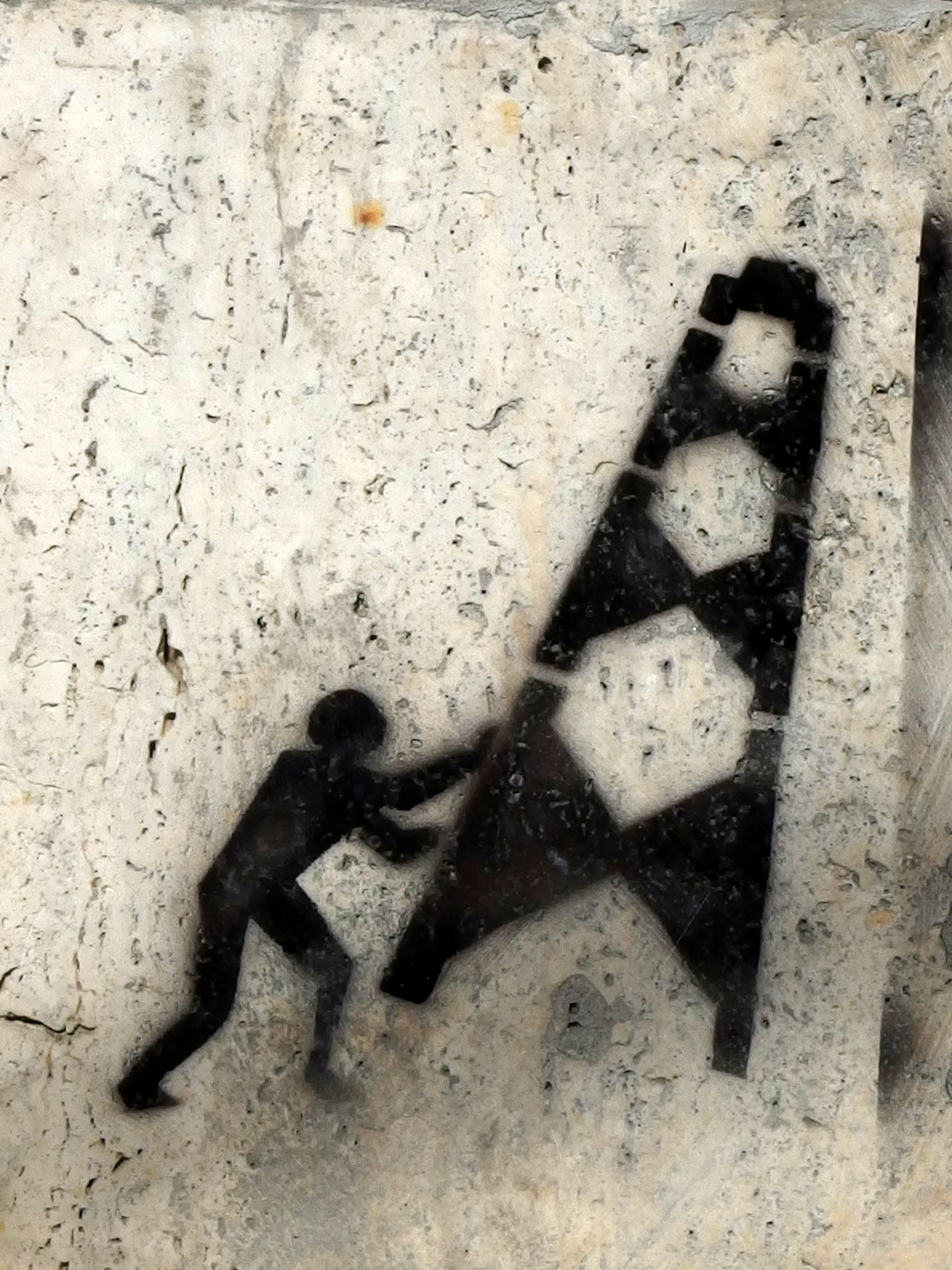 2014-07-02 in Bucureşti.